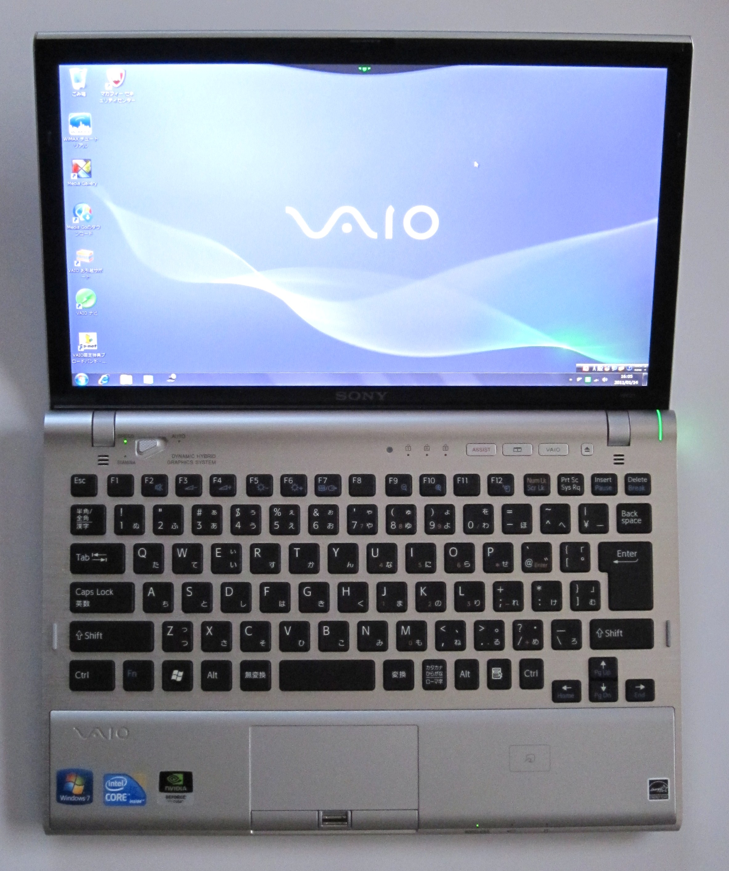 SONY VAIO VPCZ119FJ/S